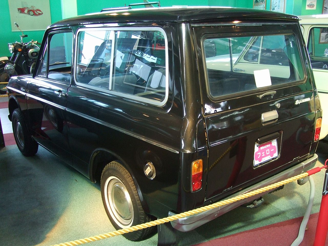 The rear view of a 1967 Daihatsu Fellow van. Location:at Uminonakamichi Seaside Park, Fukuoka City, Fukuoka, Japan.